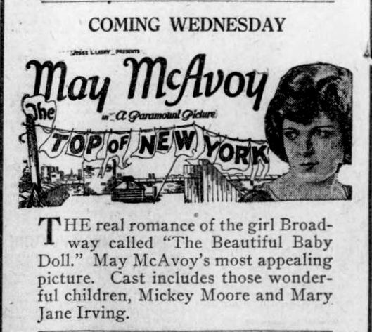 Newspaper ad for the American drama film The Top of New York with May McAvoy, on page 2 of the August 19, 1922 Duluth Herald.